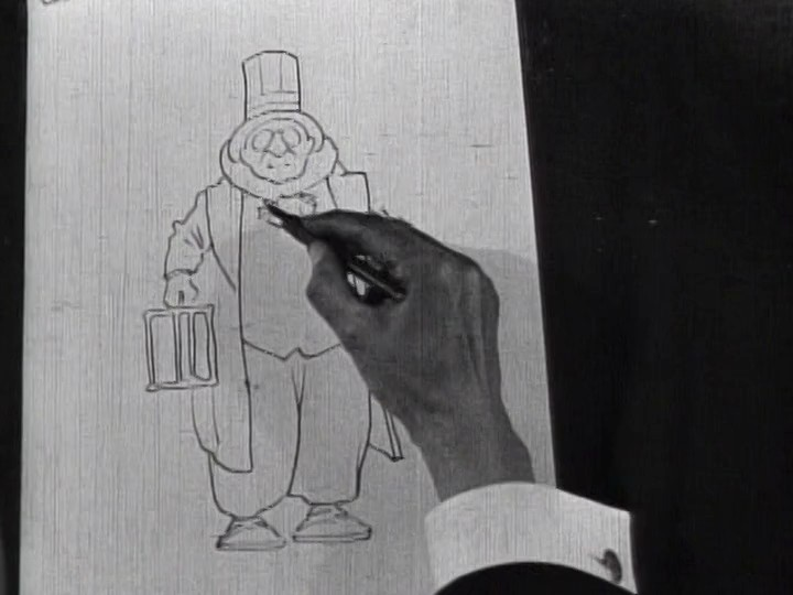 Winsor McCay drawing one of his Little Nemo characters